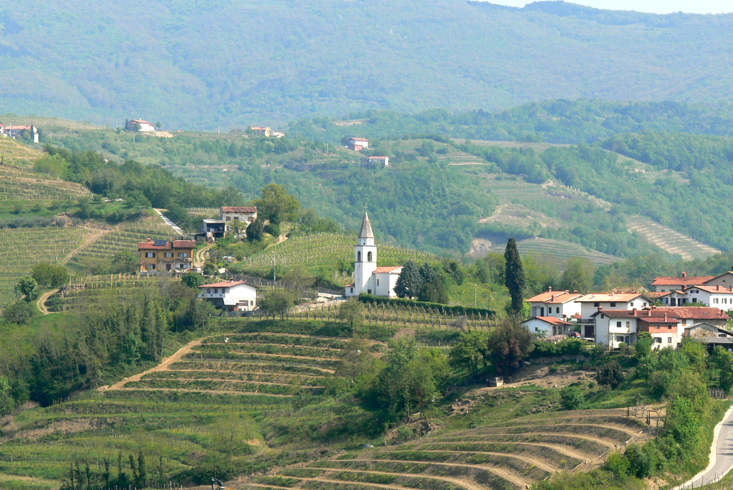 Dobrovo ( Brda, Slovenia ). View from castle terraces.